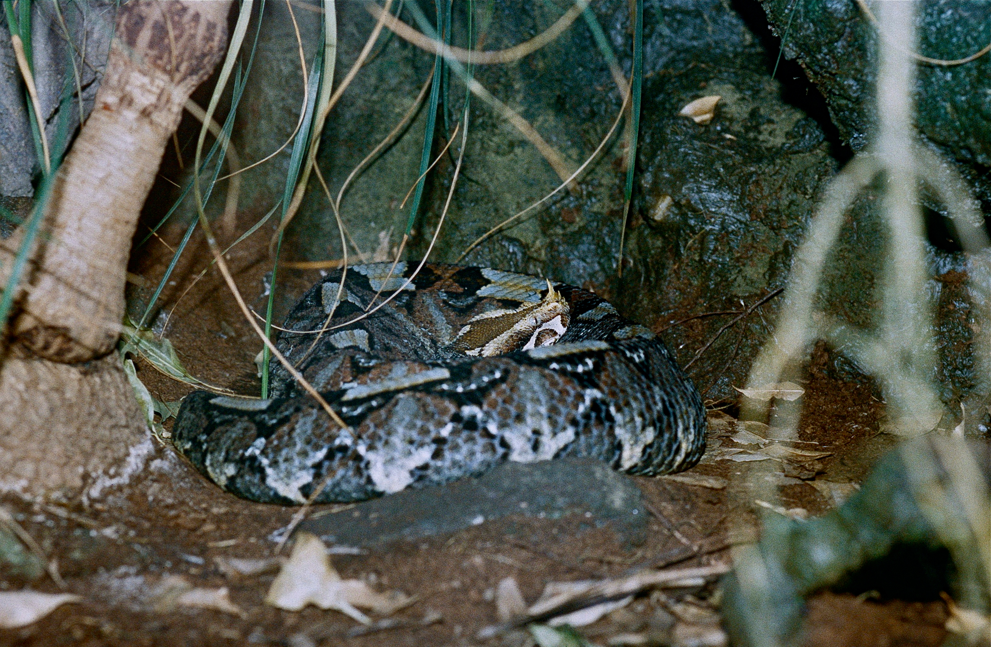 Zoo, Barcelona, Catalonia, SPAIN Scanned Slide from 1996